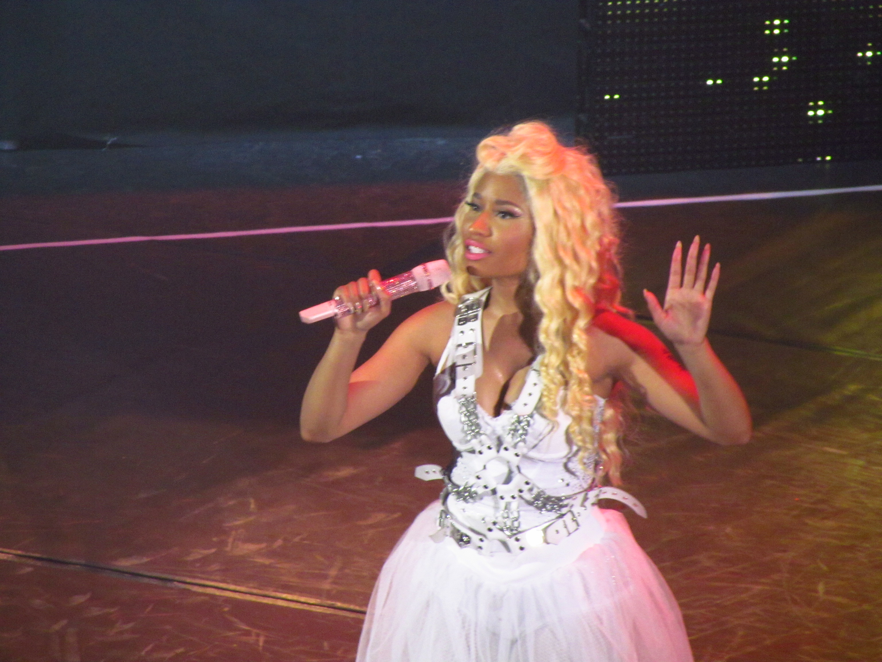 Nicki Minaj performing at the HMV Hammersmith Apollo on June 25, 2012 in London, England on the Pink Friday Tour.